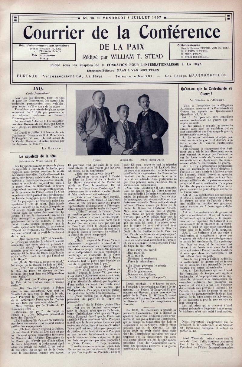 Newspaper "Courrier de la Confèrence de la Paix", number 18, of Friday July 5th, 1907. On the photo are Yi Tjoune (also know as Yi Jun), Sangsul Yi and Yi Wi-jong. This newspaper on the 1907 Peace Conference was published in The Hague, in the French language, and redacted by William T. Stead.